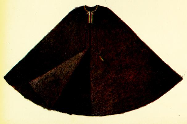 CENTRAL CAUCASUS. The burka. The burka is the weather cloak of the Caucasians. It is semi-circular, and made to fit the shoulders by the insertion of a gore. It is made of a felty milled wool, a sort of rough hunter's cloth, on the outside of which the hair is sometimes left. The favourite colours are black, or black-brown; seldom white. The opening for the neck, and the seams over the chest are trimmed with the braid. The inside of the burka, and the shoulder parts are often lined with silk or calico. The burka is tied at the neck with strings. The bashlik is a complement to the burka. It is a hood, the ends of which are slung round the neck (cf. Pl. 53)